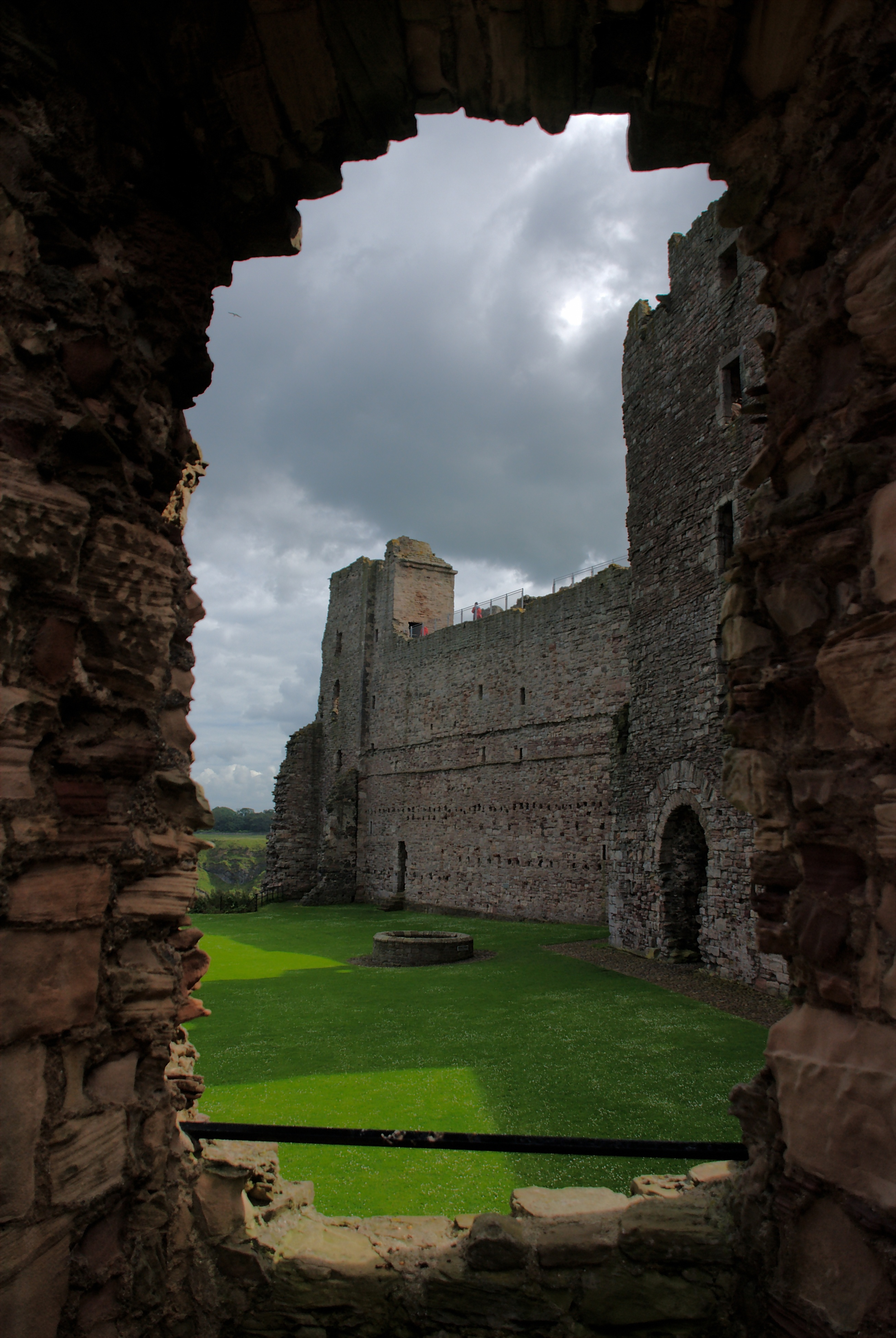 Tantallon Castle, courtyard with well and southern wing